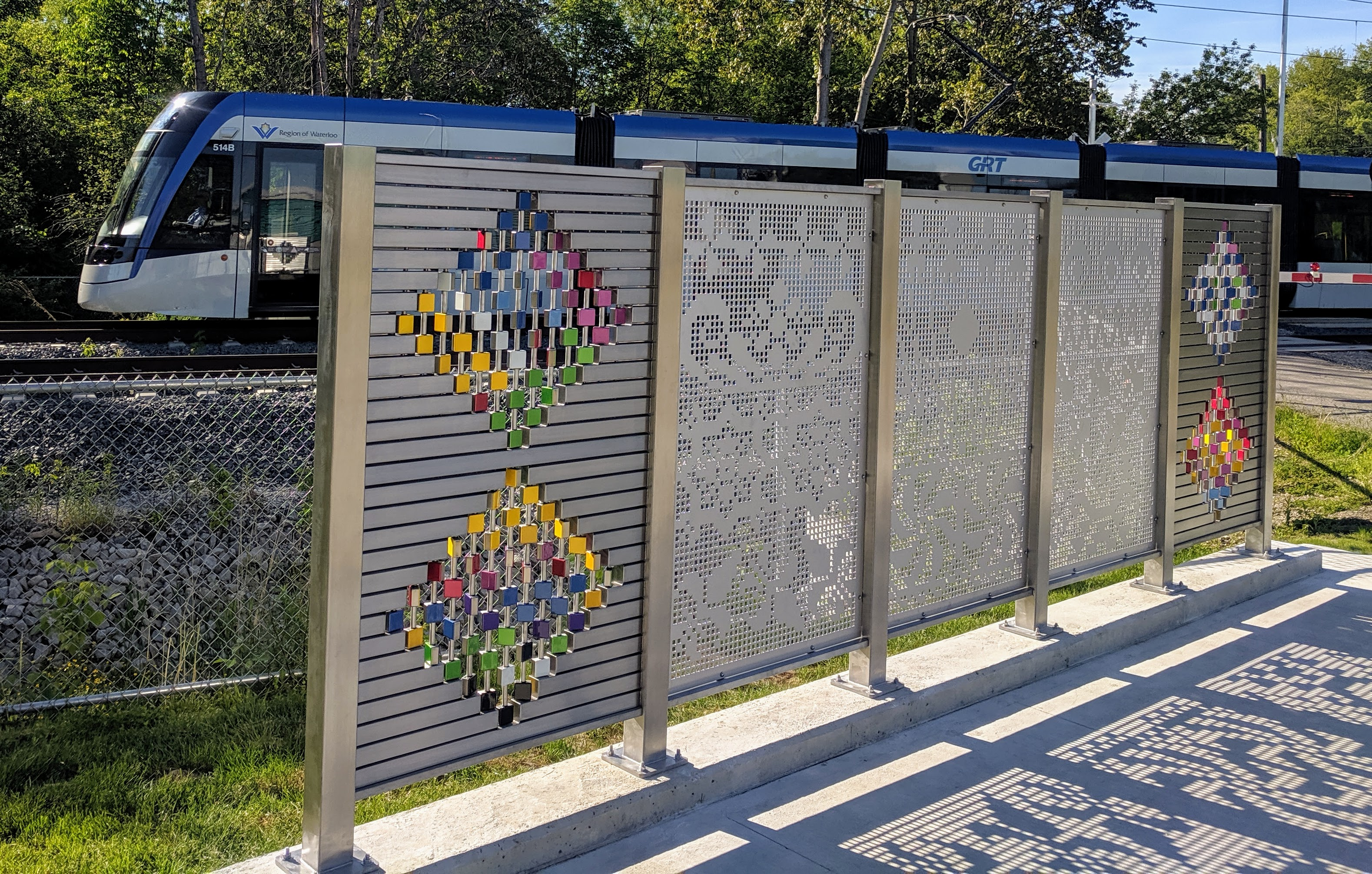 Fabric of Place, artwork by Lilly Otasevic, completed 2019. Old Albert Street, Waterloo, Ontario.